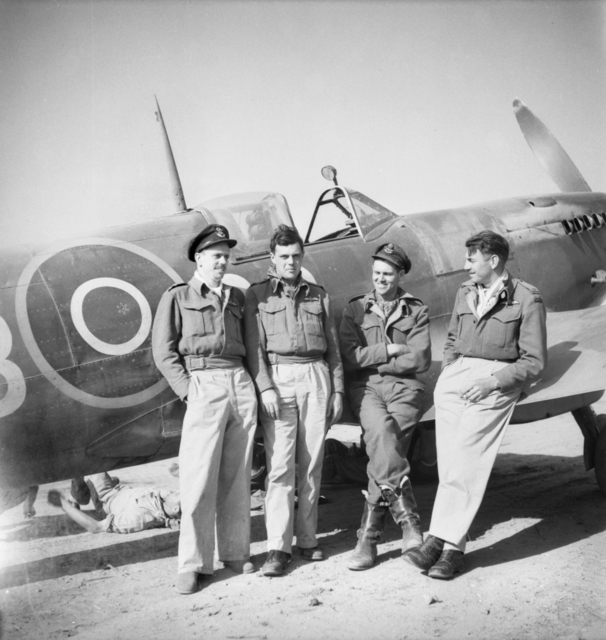 Australian War Memorial image MEA1749. [AWM caption:] "Poretta, Corsica, France. May 1944. Pilots of No. 451 Squadron RAAF which is operating from a forward Mediterranean base in Corsica stand in front of a Supermarine Spitfire aircraft. Recently they accounted for four FW190s over Italy. Left to right: 407465 Flying Officer (FO) W. W. Thomas of Malvern, SA; 406247 FO E. C. House DFM DFC of Gnowangerup, WA, 402365 Squadron Leader E. E. Kirkham, Commanding Officer, of Concord, NSW, and 404324 FO H. J. Bray of Moolcolah, Qld."